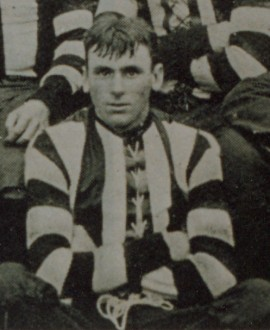 Photograph of George Green from 1903-1908.